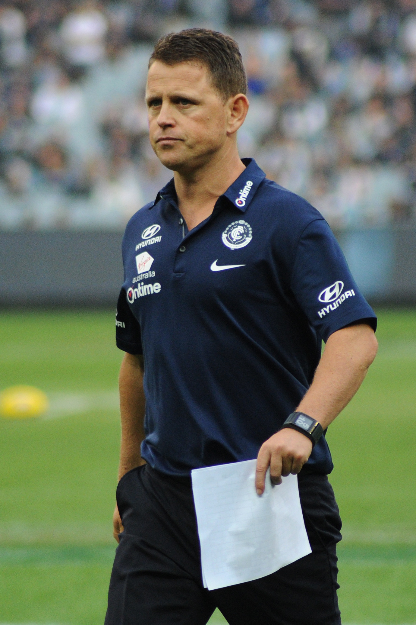 Brendon Bolton during the AFL round five match between Carlton and West Coast on 21 April 2018 at the Melbourne Cricket Ground in Melbourne, Victoria.